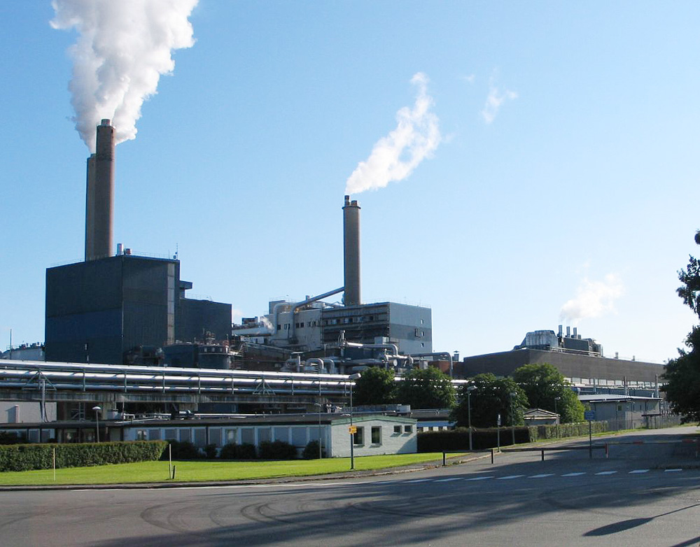 Nymölla Paper Mill, Bromölla, Sweden